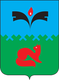 Pokachi (Khanty-Mansia), coat of arms